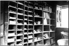 Bookshelf, Library of the National Southwestern Associated University